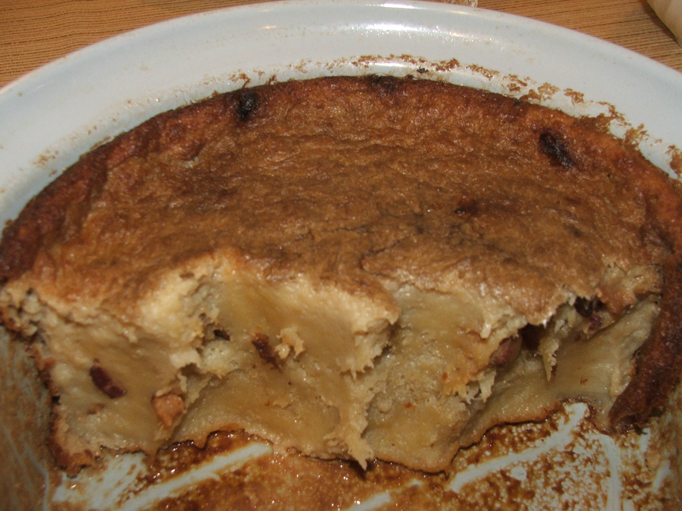 Belarusian traditional potato dish "babka"